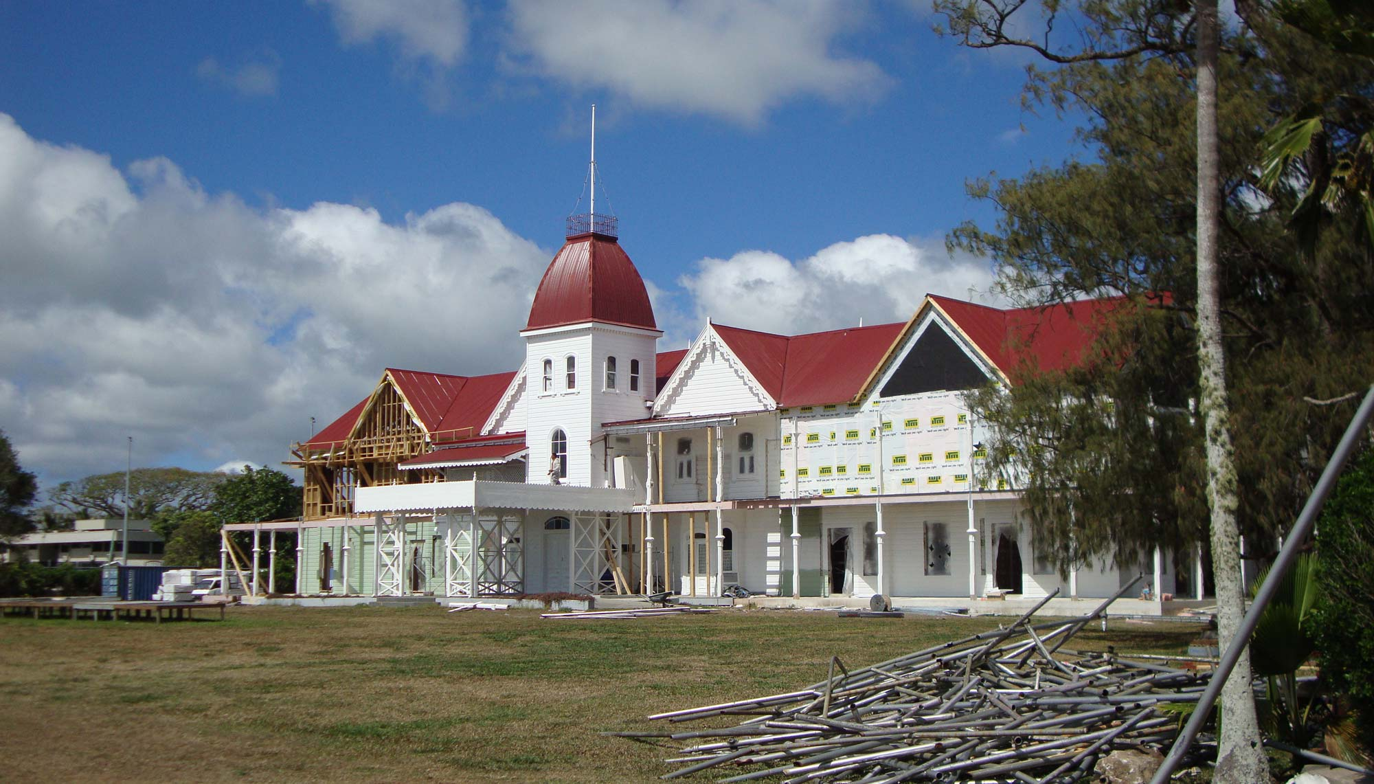 Nukuʻalofa royal palace being extended